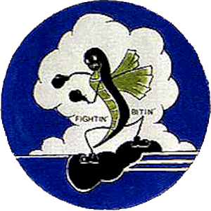 Emblem of the 369th Bombardment Squadron (World War II)